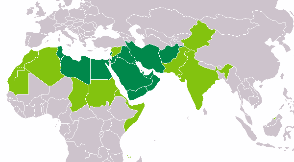 This map, made by MaGioZal, shows the countries that use the Arabic alphabet. In dark green, the countries that use the Arabic as the sole official script; and in light green, the countries that assume the Arabic alphabet as a co-official script.